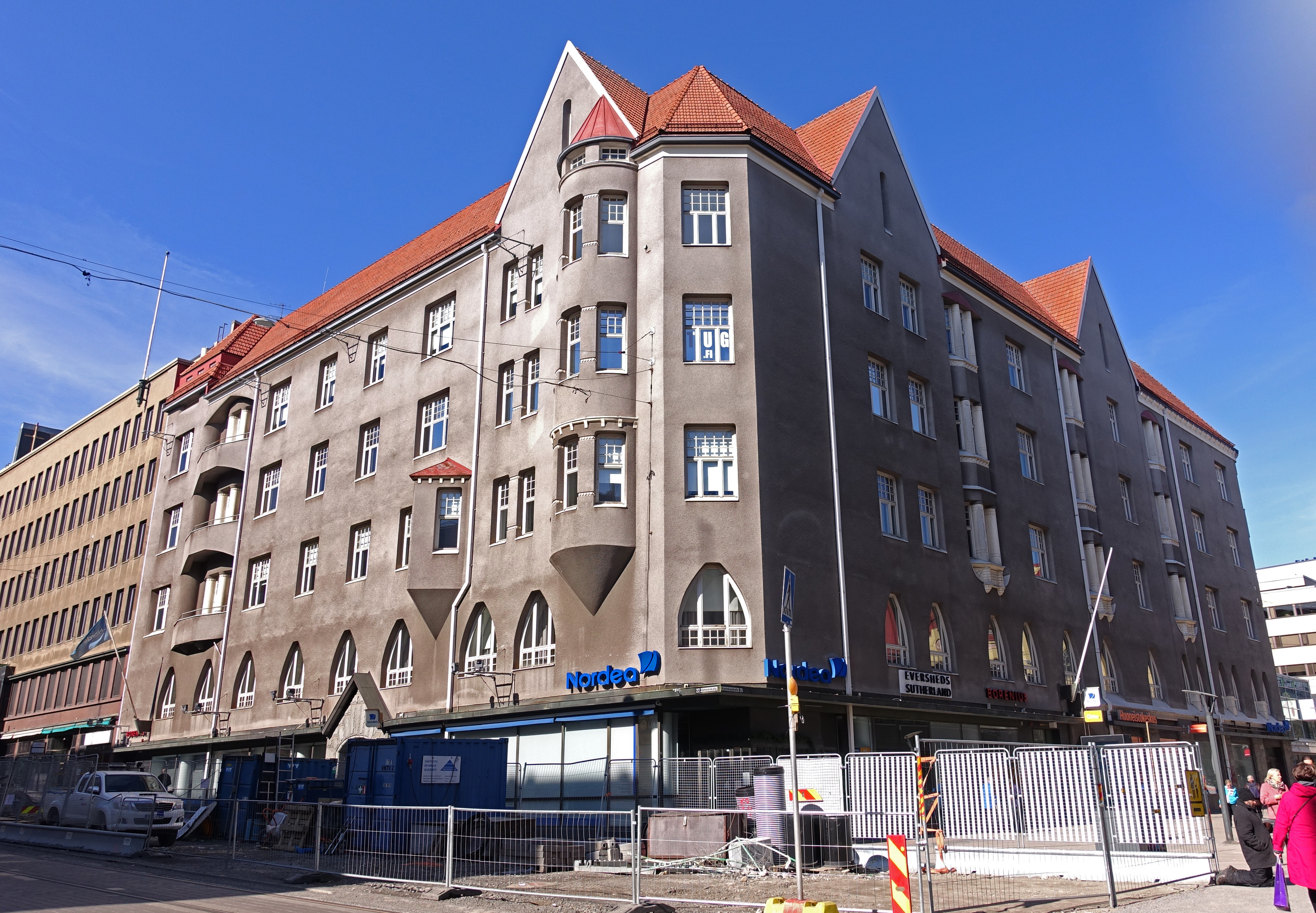 Tampere, Finland.